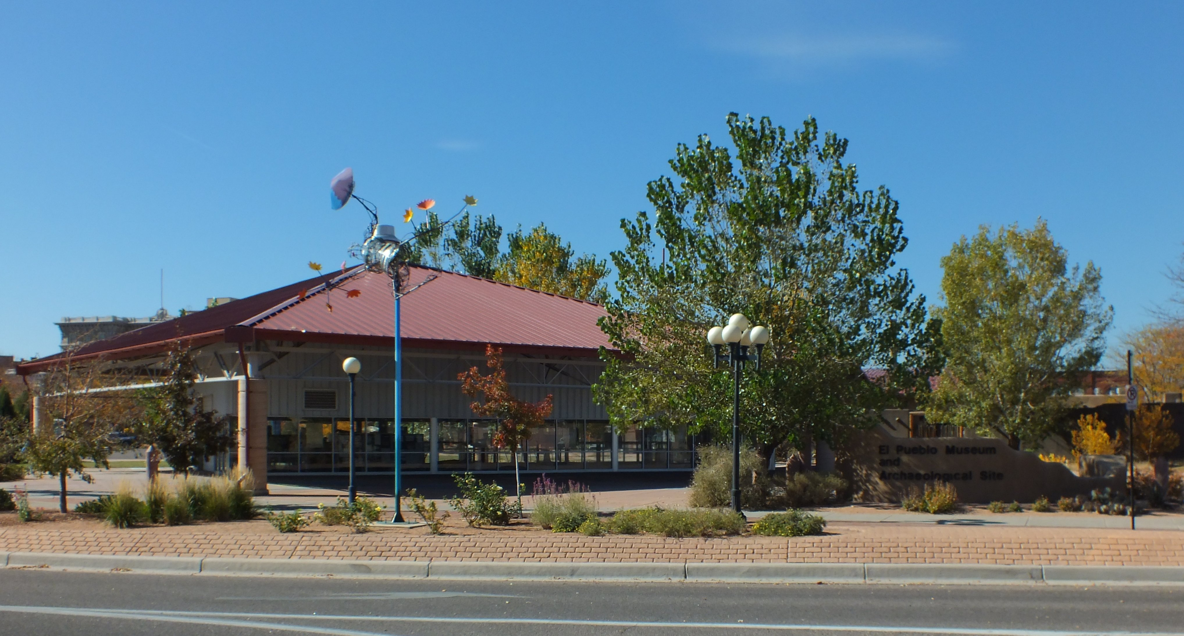 El Pueblo